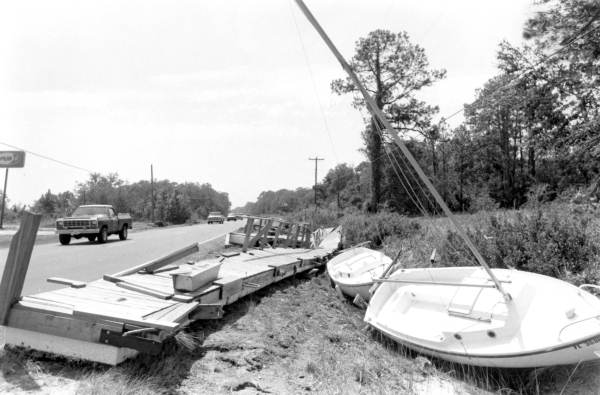 "Boats and section of dock washed ashore by Hurricane Elena", 1985, Florida.